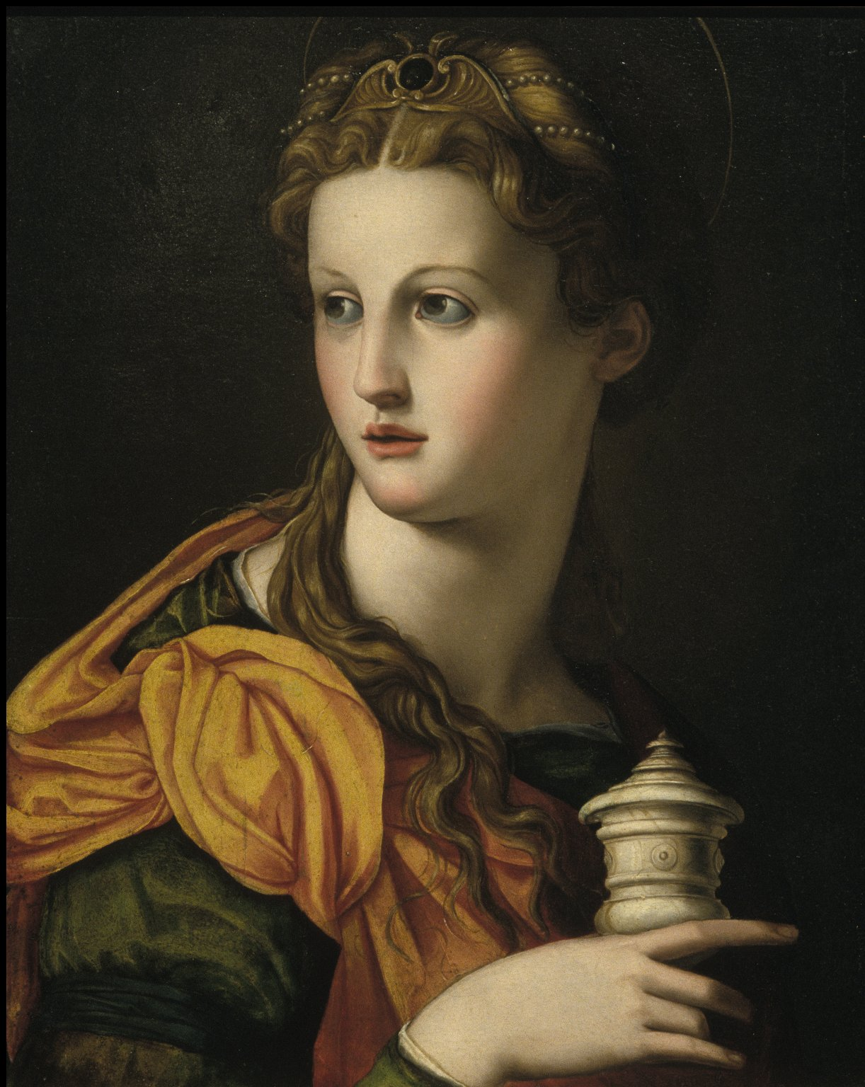 Shoulder length representation of a young woman holding an alabaster ointment jar in her proper right hand. She is blond, has a halo, and turns to the left. She wears a green dress and a yellow scarf (identified as cangiant). She has pearls in her hair.